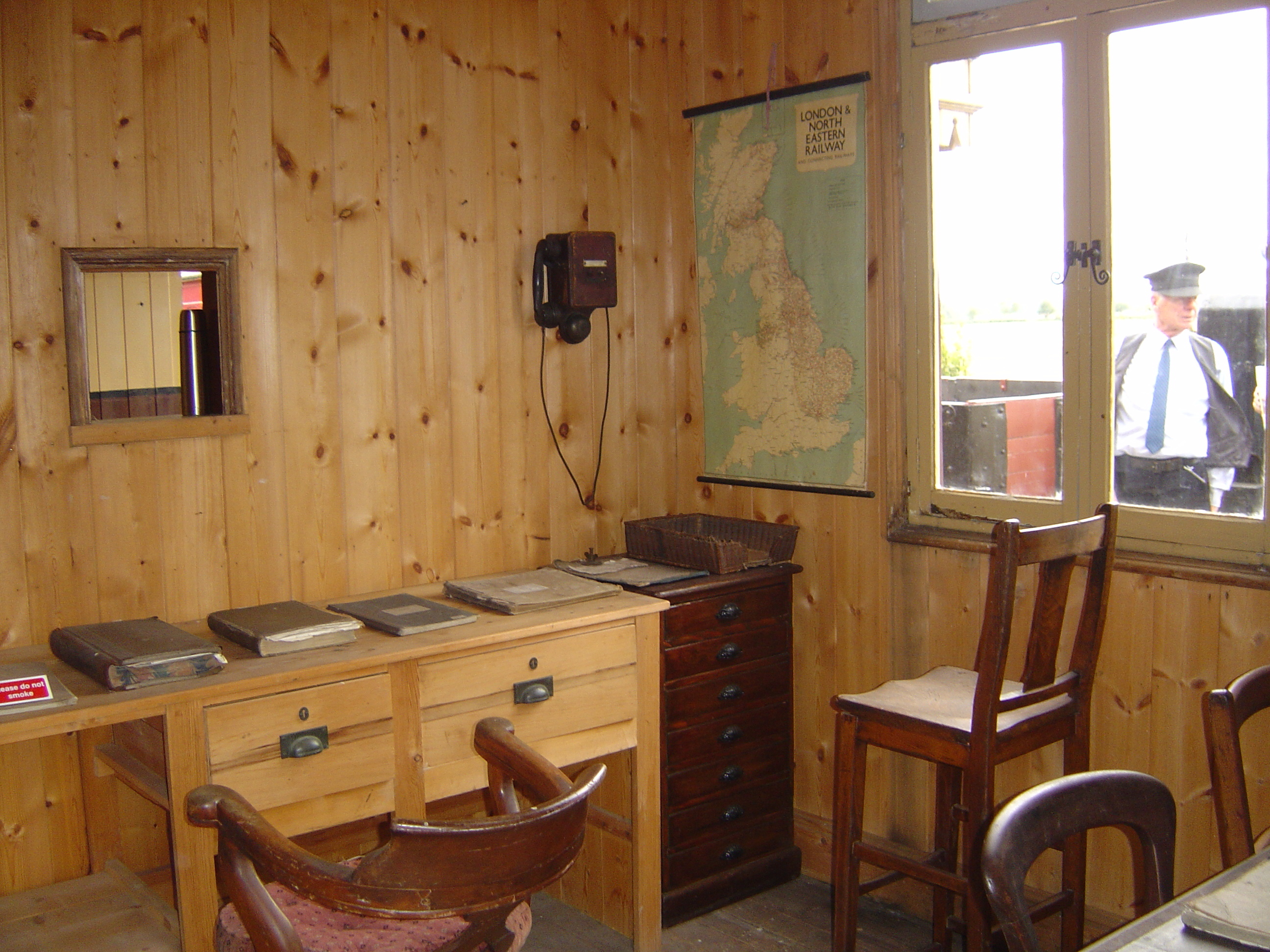 Taken by Nick Fowler on the 18th September 2004